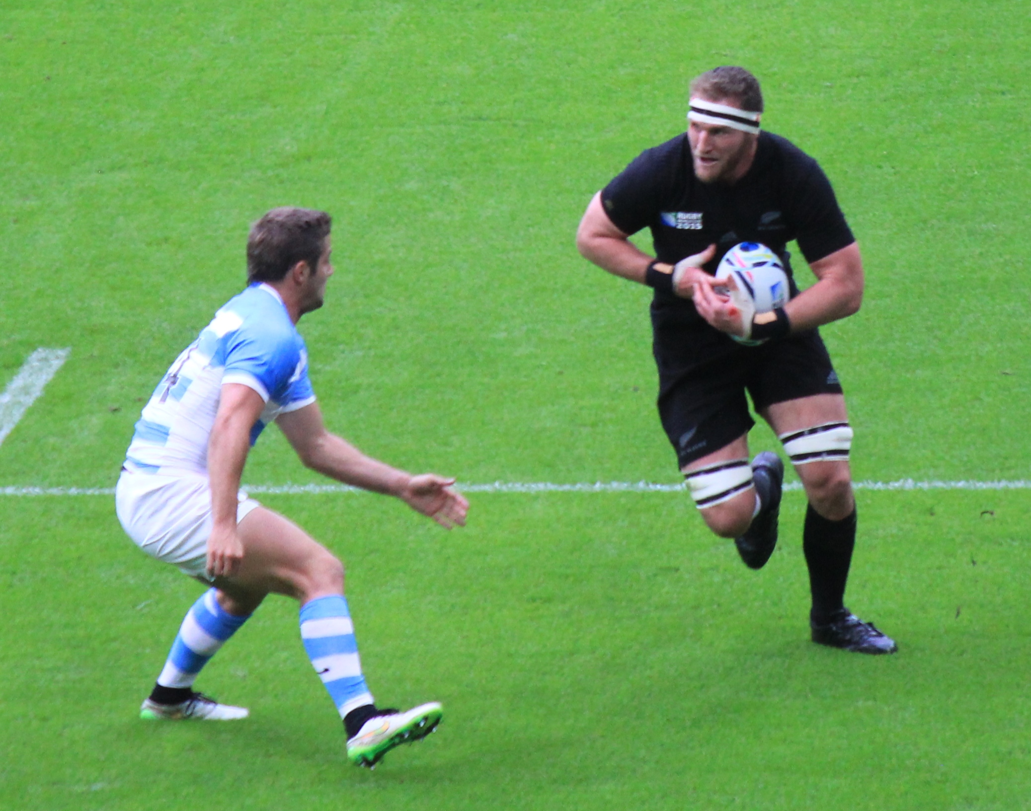 New Zealand international rugby union footballer Kieran Read playing in 2015 Rugby World Cup game New Zealand vs Argentina at Wembley Stadium in London.